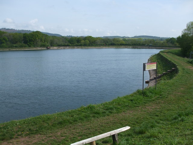 Lisvane Reservoir View across Lisvane Reservoir